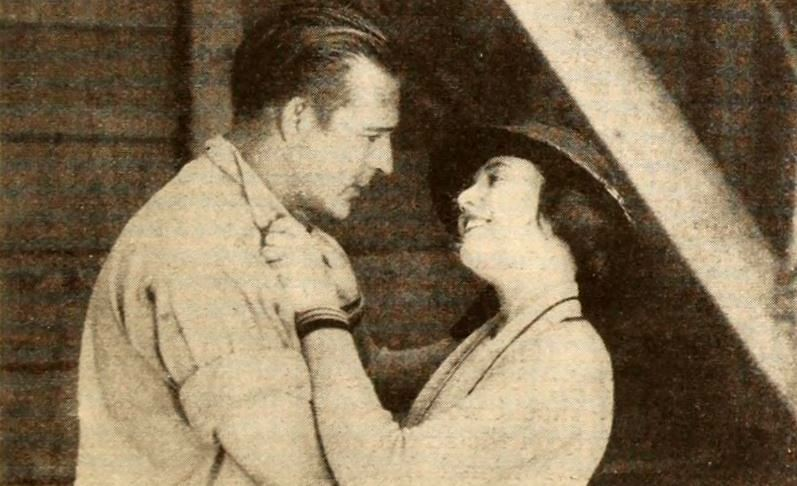 Still from the American silent film The Hell Diggers (1921) with Wallace Reid and Lois Wilson, page 63 November 1921 Photoplay.